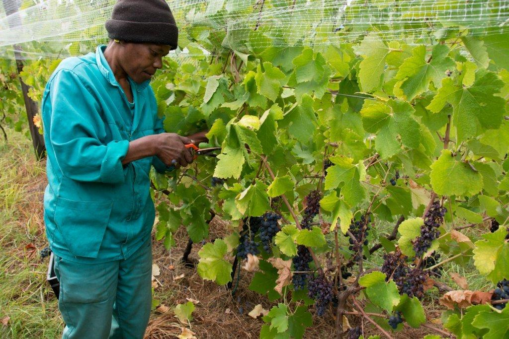 Olivedale